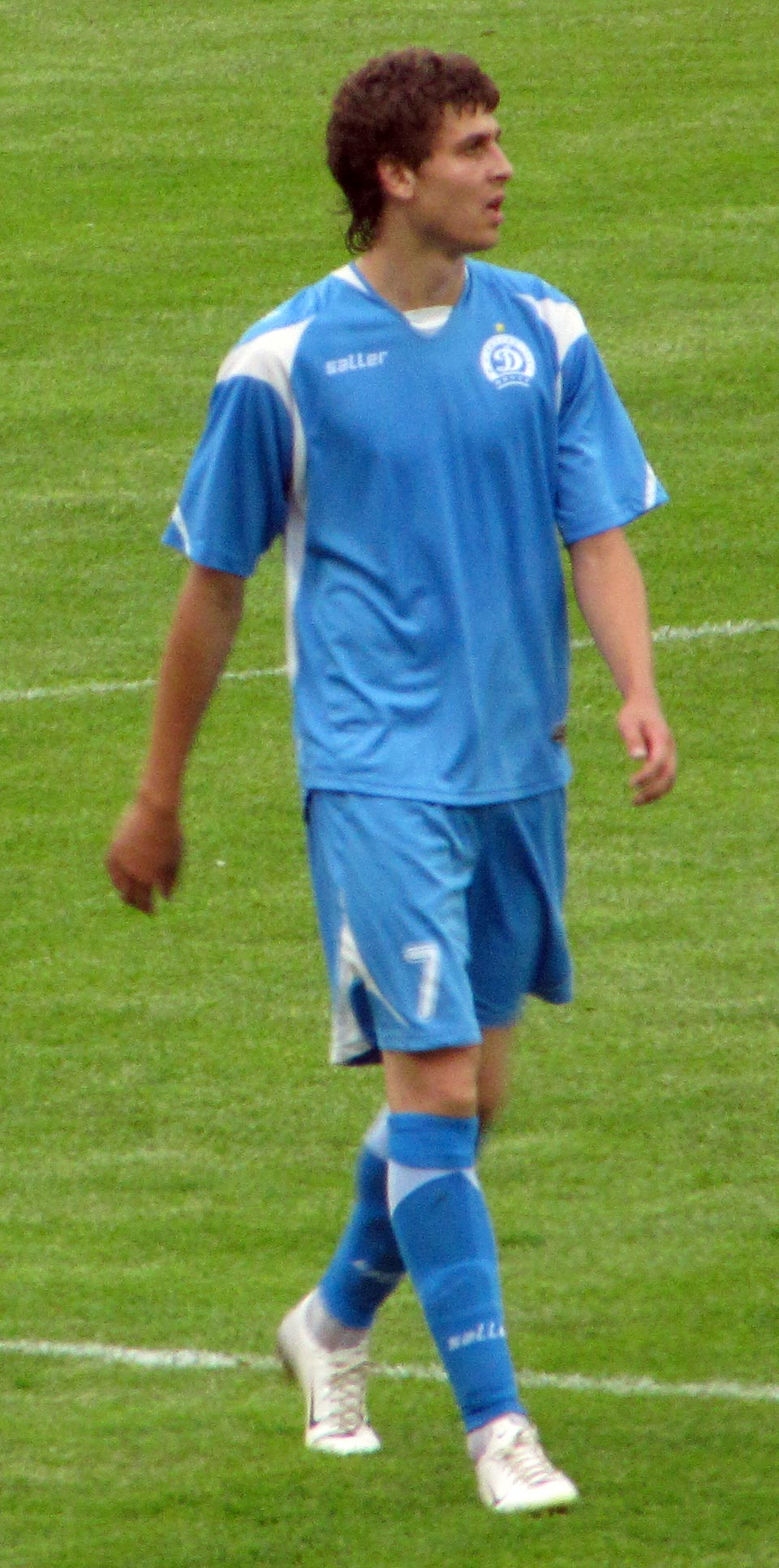 Belarusian footballer Alyaksandr Lebedzew at a match against Tromsö IL in Minsk, Belarus.